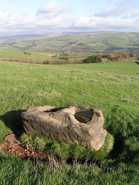 The Dipping Stone. Described in the Ancient Monument Schedule as a "Wayside and Boundary Cross", the Dipping Stone lies just off a public footpath below the end of Whaley Moor and offers views to Chinley Churn (SK0383) and beyond that the Kinder Scout plateau. The similarity to 44825 and 11401 is notable; all three appear to have (or have had) one square shaft and one round.